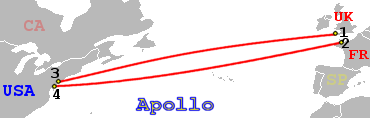 Route of the Apollo submarine communications cable. For more information about numbered landing points, see main article.